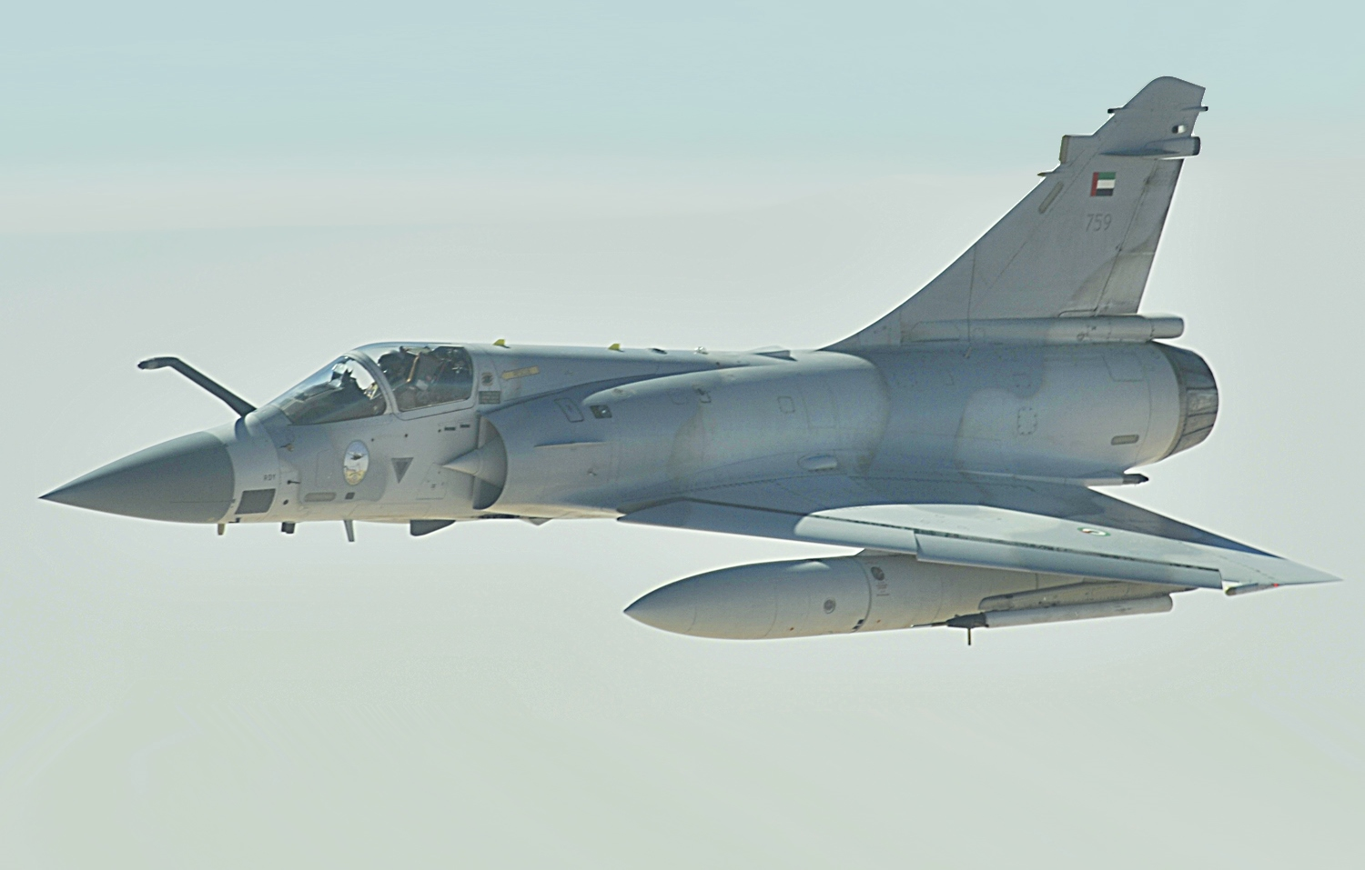 A Emirate Mirage 2000 multirole combat fighter aircraft conduct a flight over Afghanistan Nov. 10, 2008, in support of exercise Iron Falcon. (U.S. Air Force photo by Staff Sgt. Aaron Allmon/Released)